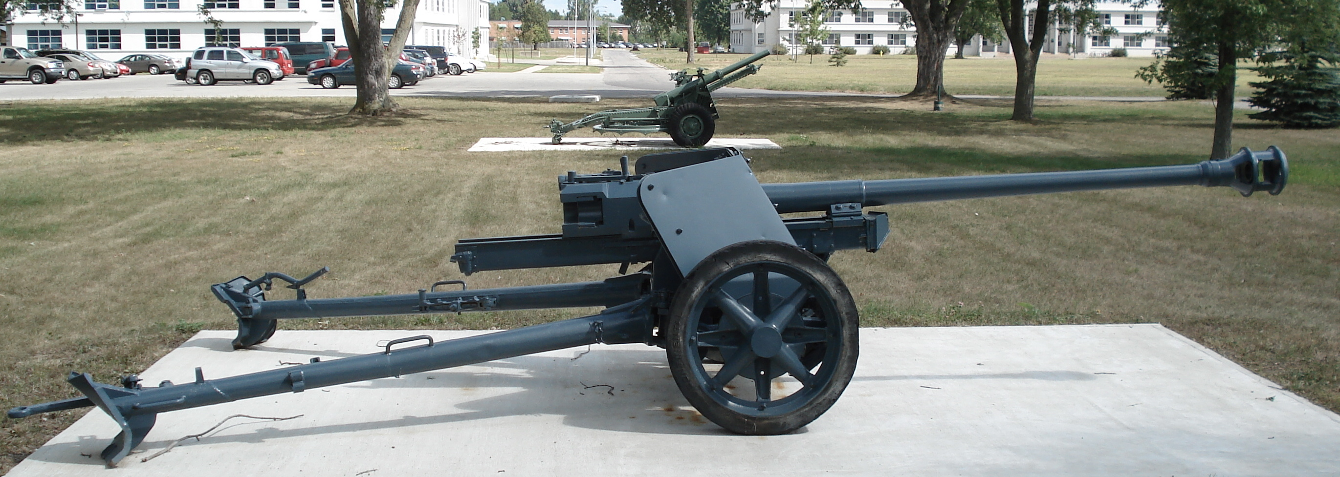 German PaK 40 75 mm anti-tank gun. This example is displayed on the grounds of CFB Borden (Base Borden Military Museum). Photo taken on August 18, 2006. Source: Photo by me, User:Balcer.